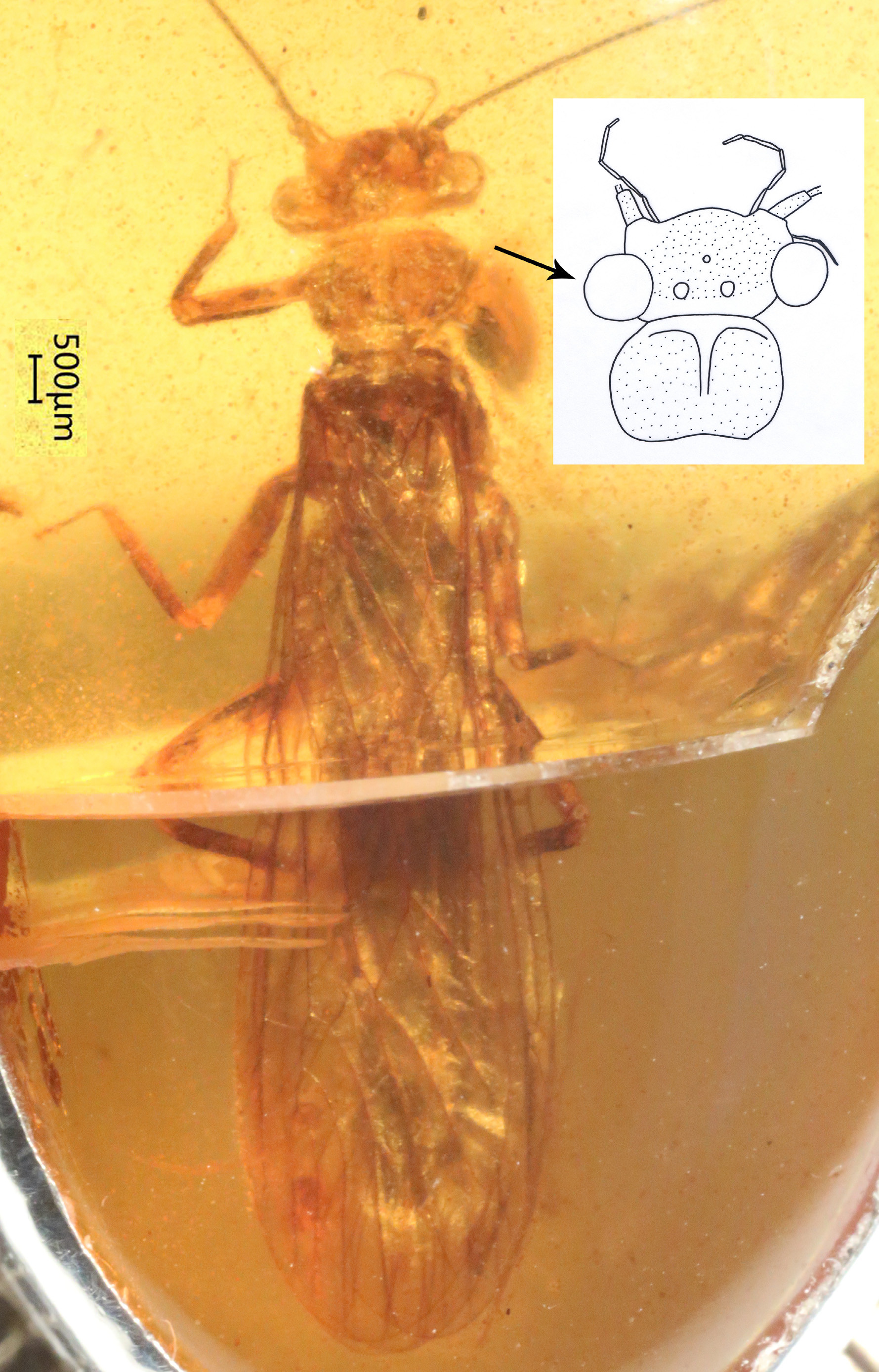 FIGURE 3. Largusoperla reni, Adult habitus, dorsal view.